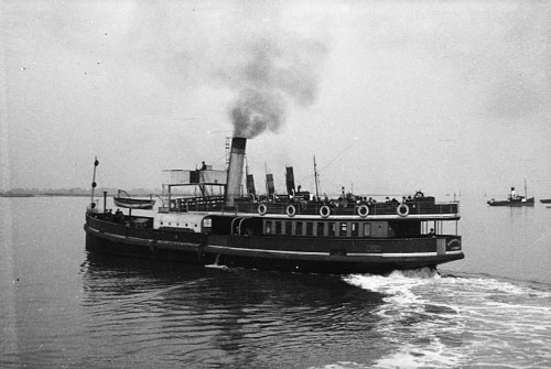 Original caption: “ Gravesend-Tilbury passenger ferry 'Gertrude' (1906). ” Reproduction ID:: P29343 Maker: Unknown